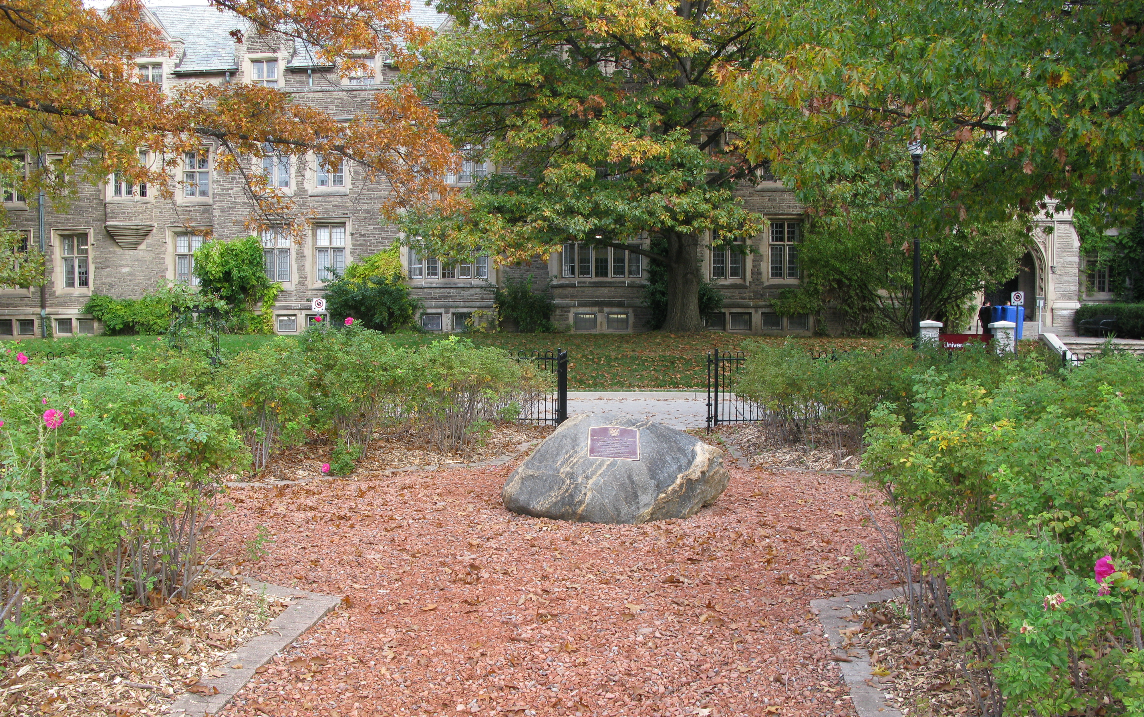 Nina de Villiers Garden at McMaster University, in memory of murder victim Nina de Villiers